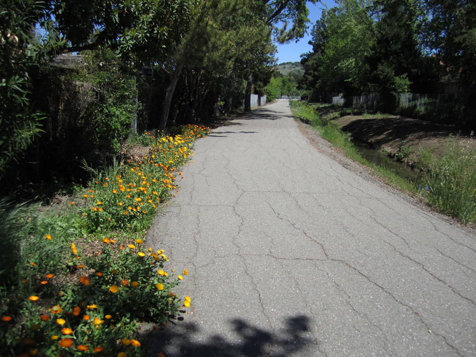 A 7-mile loop trail that follows the Ygnacio Valley Canal to its intersection with the Contra Costa Canal.